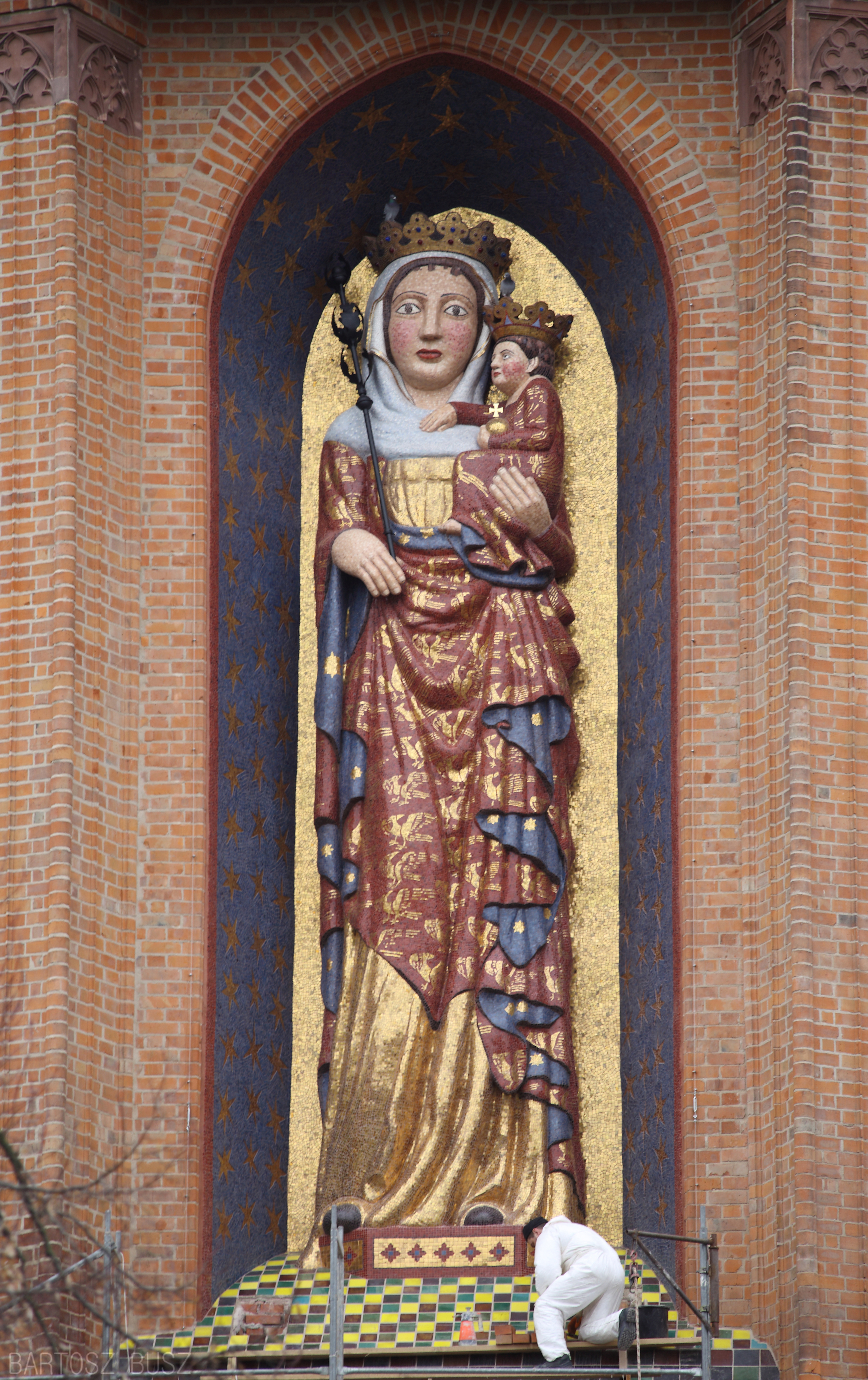 Restored mozaika of St.Maria